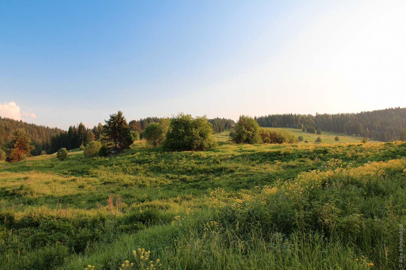 Nature in Prigorodniy Raion, Sverdlovsk Oblast, Russia